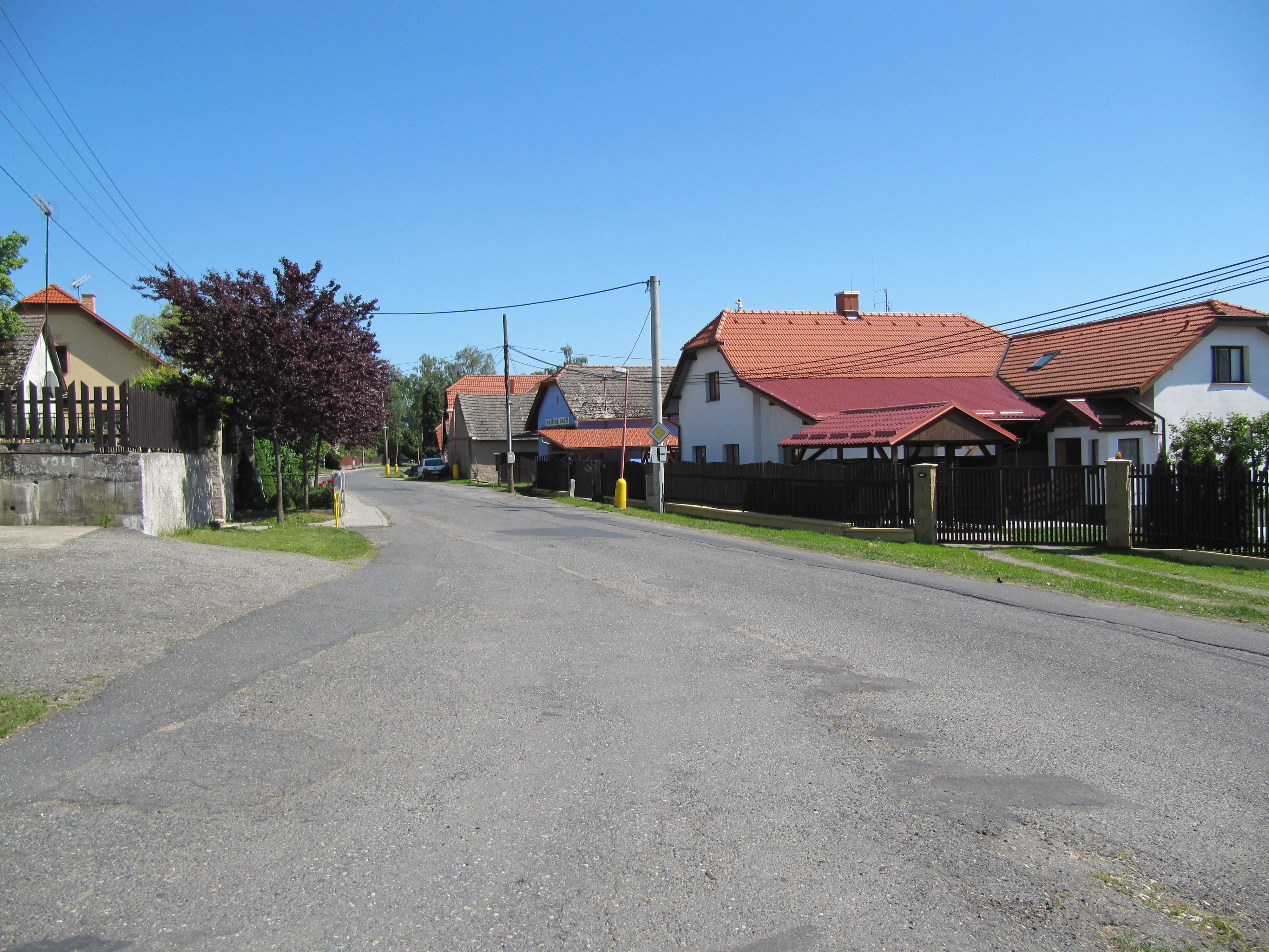 Skvrňov in Kolín District, Czech Republic. Street towards Uhlířské Janovice.